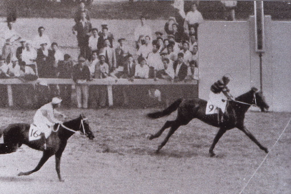 Tokyo Yushun（Japanese Derby）,1951 june 3rd